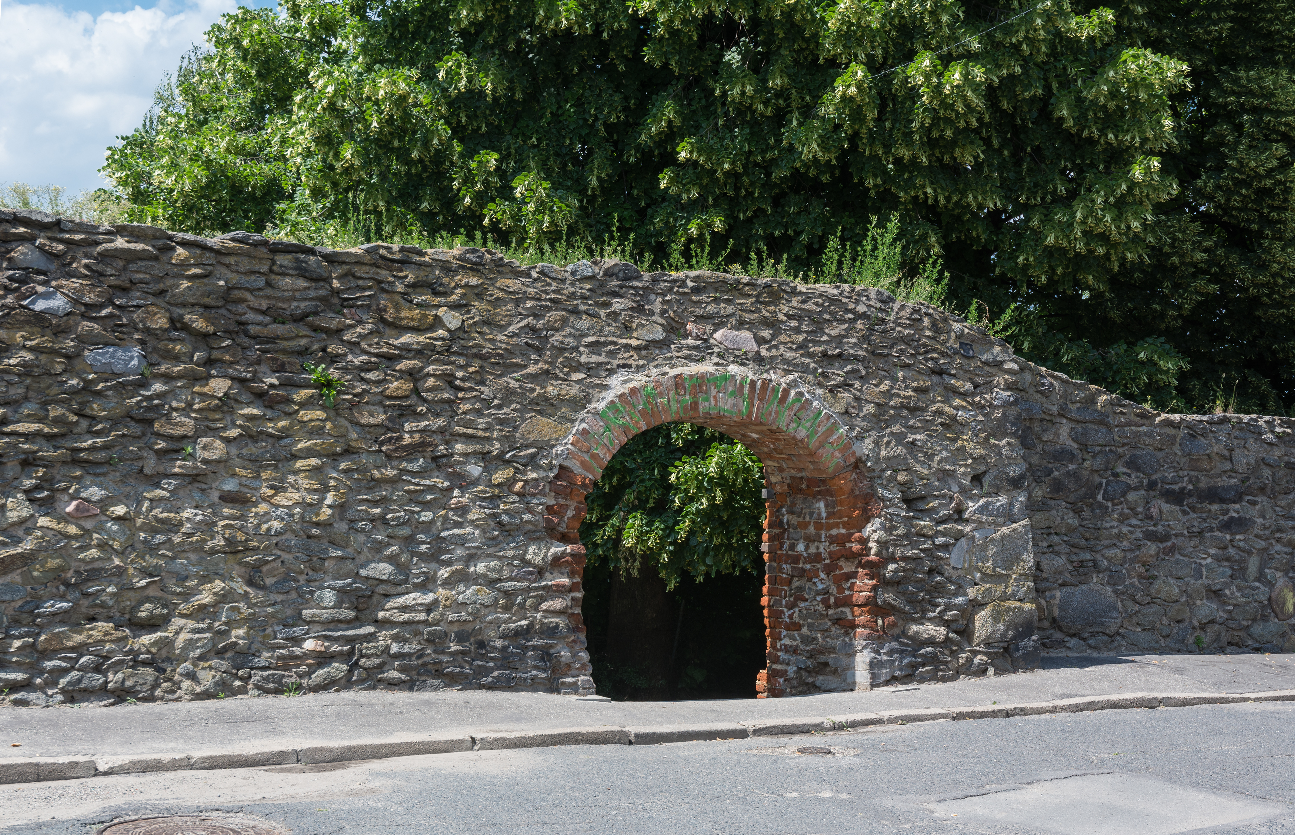 City walls in Niemcza